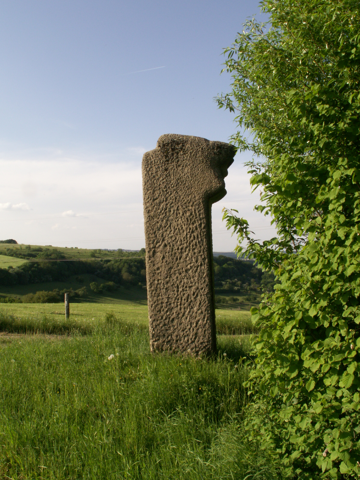 Steine an der Grenze - Eileen McDonagh, 1992